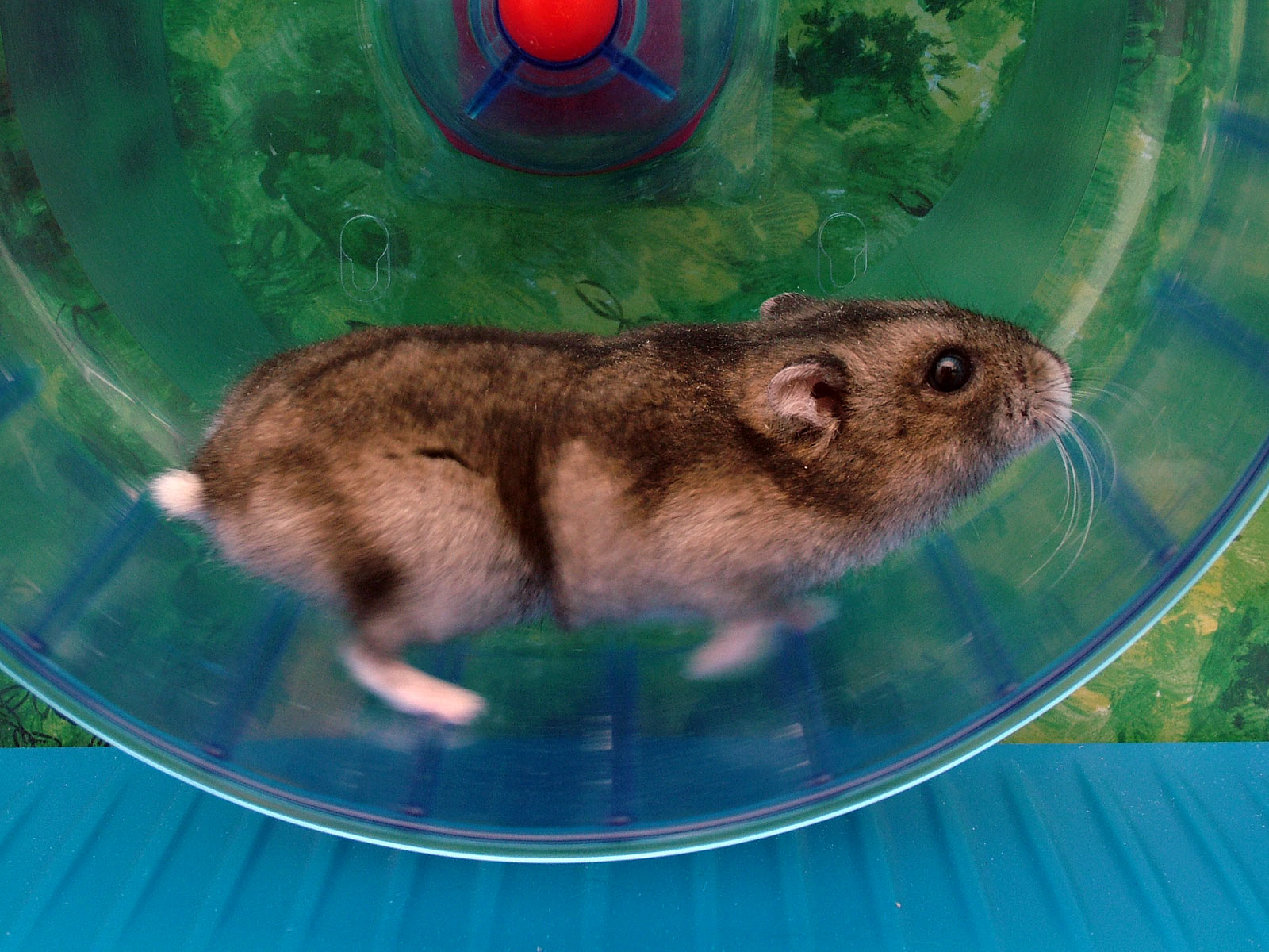 A ca. 6 months old Winter White Russian Dwarf Hamster (Phodopus sungorus) in a hamster wheel. Please compare this image and the order of its colours with the Wikimedia logo and note that it is a common joke, that such hamsters are running our servers ;-) Isn't it the perfect illustration for "Wikipedia has a problem. Sorry! This site is experiencing technical difficulties."?